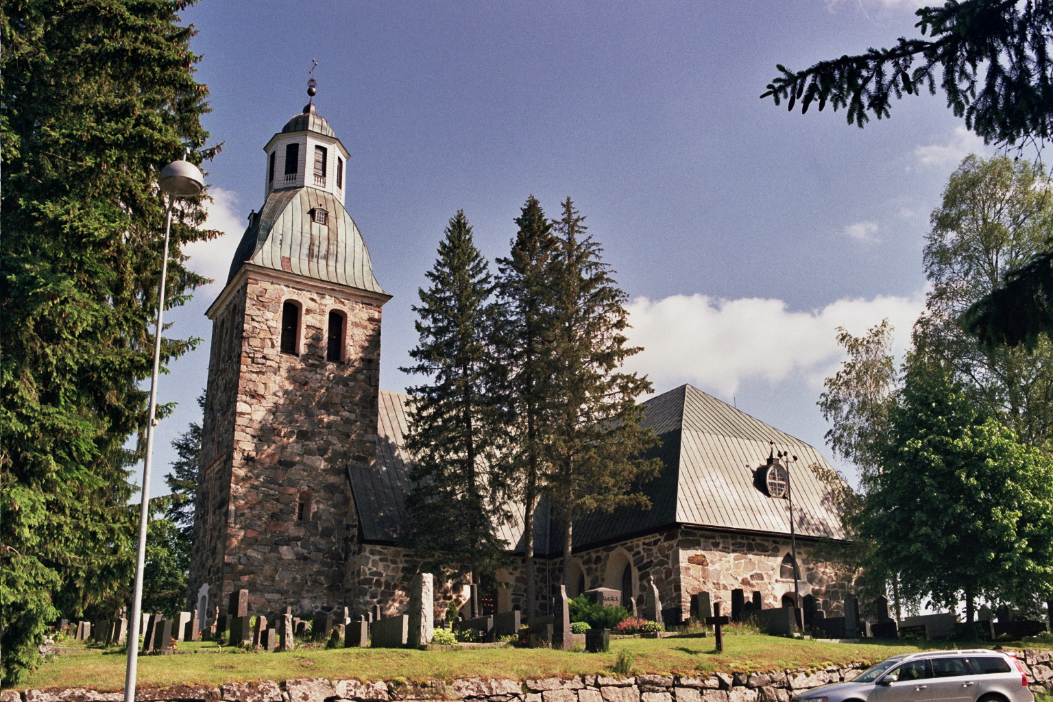 The church of Huittinen in Finland. The oldest part of the building was probably built in around 1495.